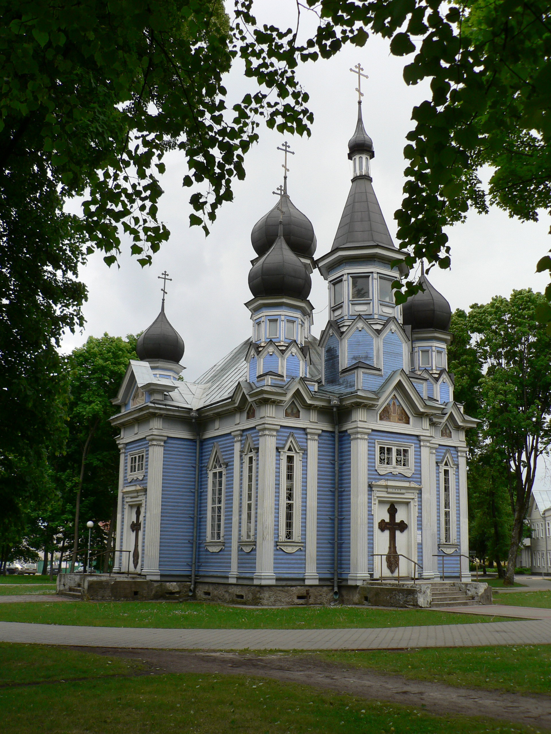 Orthodox church in Druskinikai; Lithuania.